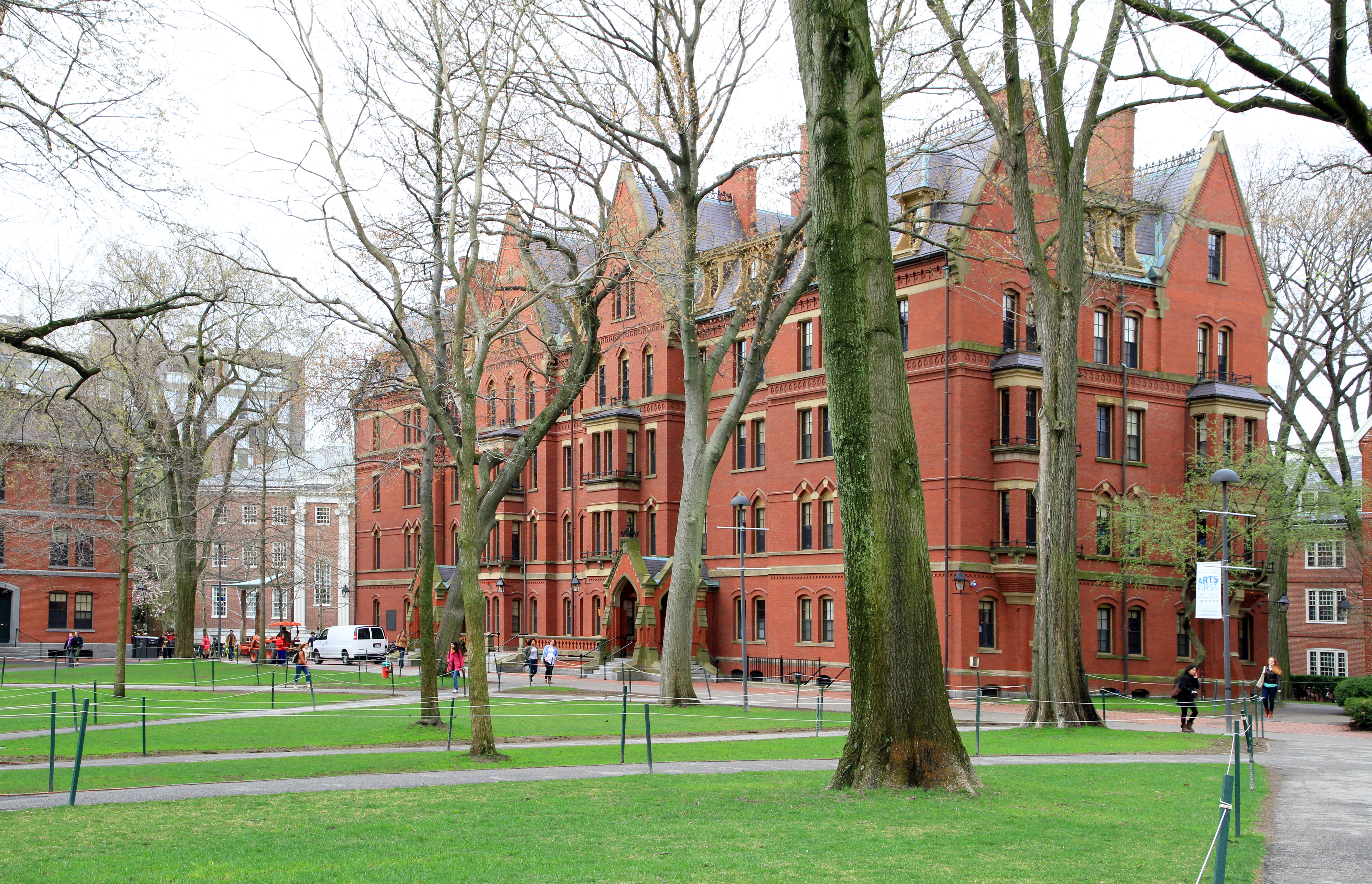 Harvard University Yard